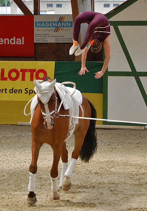 Individual vaulter at CVI Krumke, Germany